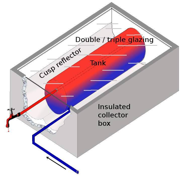 Colours added to existing monochrome image File:Batch solar thermal collector.gif